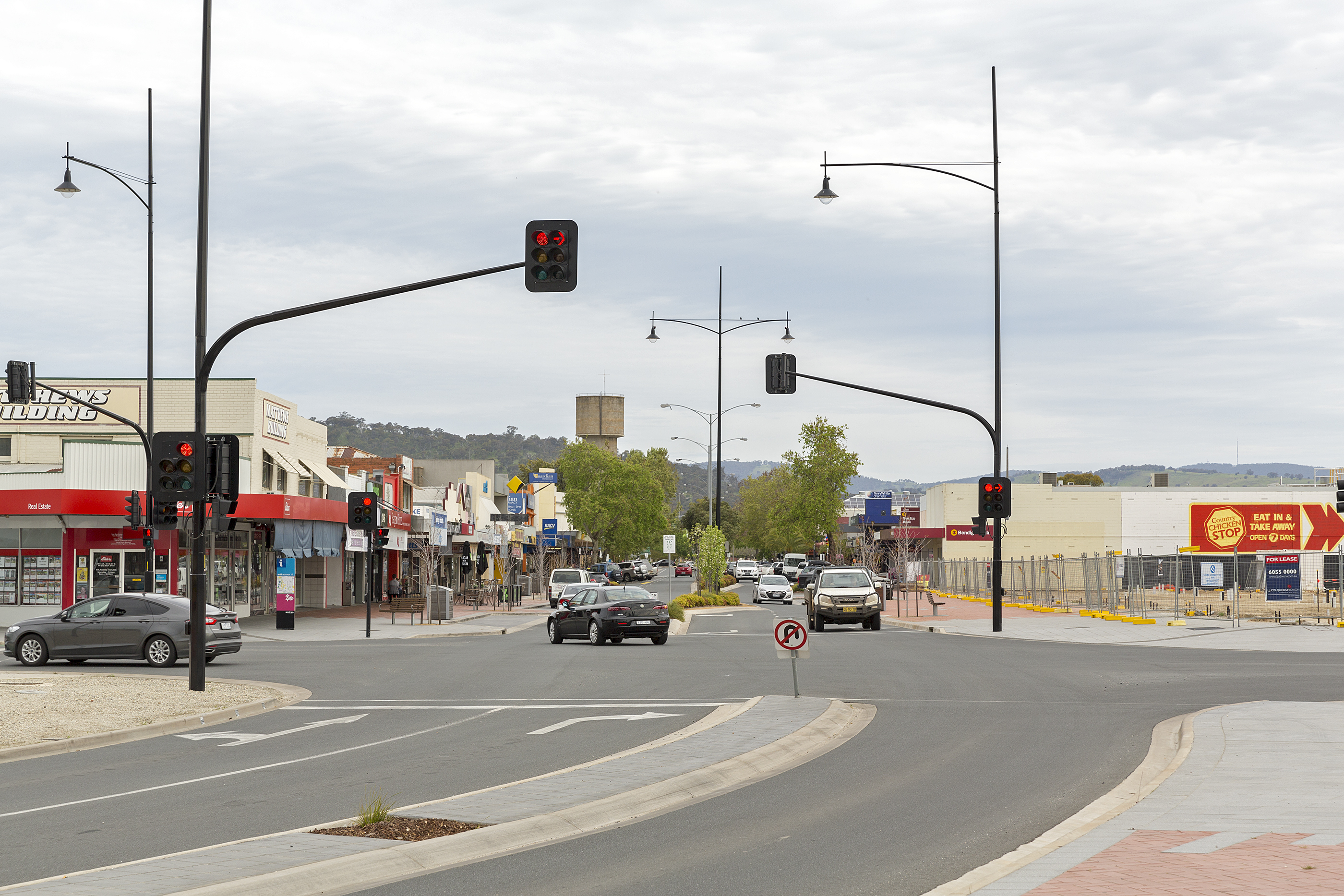 Looking down High St in Wodonga